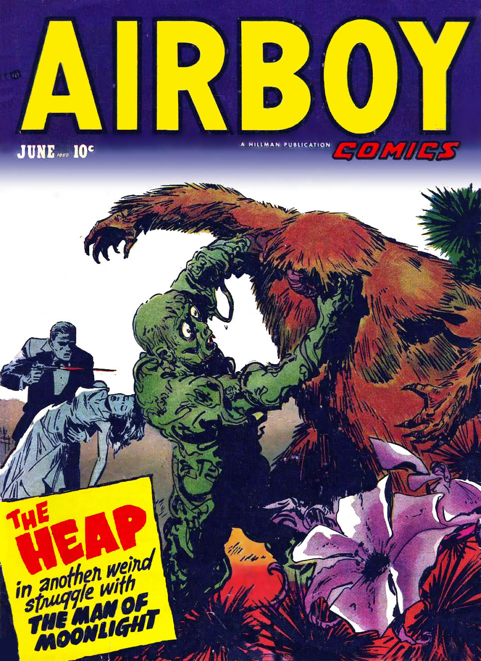 "The Heap In Another Weird Struggle with The Man of The Moonlight" from Airboy Comics, Hillman Publications, March, 1952. Artwork by Ernest Schroeder, image has fallen into the public domain due to lapsed copyright.